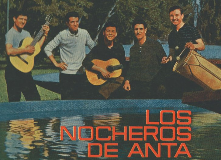 Los Nocheros de Anta. Folk. Argentina